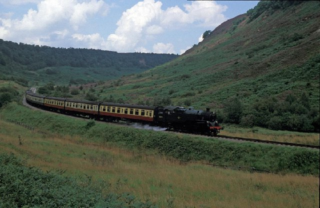 North York Moors Railway - North Dale. North Dale, an isolated and quiet valley in the North York Moors. Almost inaccessible apart from a long walk along rough forest track this spot provides a wonderful vantage point for the North York Moors Railway. Here BR standard class 4 2-6-4 tank 80135 eases down to Newtondale Halt.